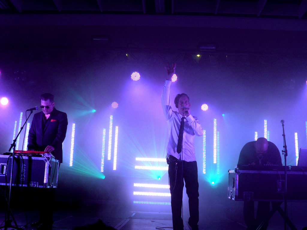 SAM_0617 Edited